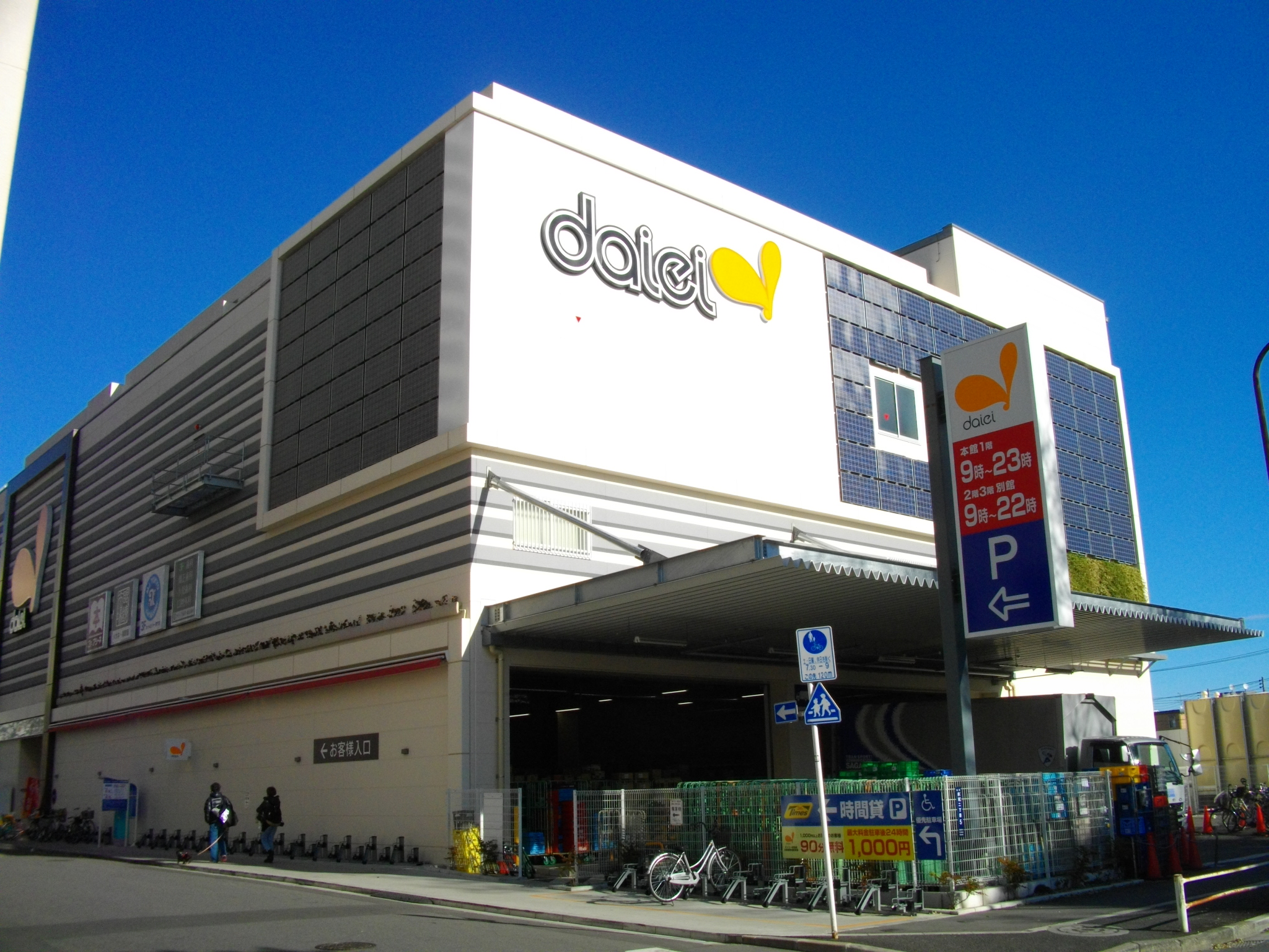 Daiei Akabane